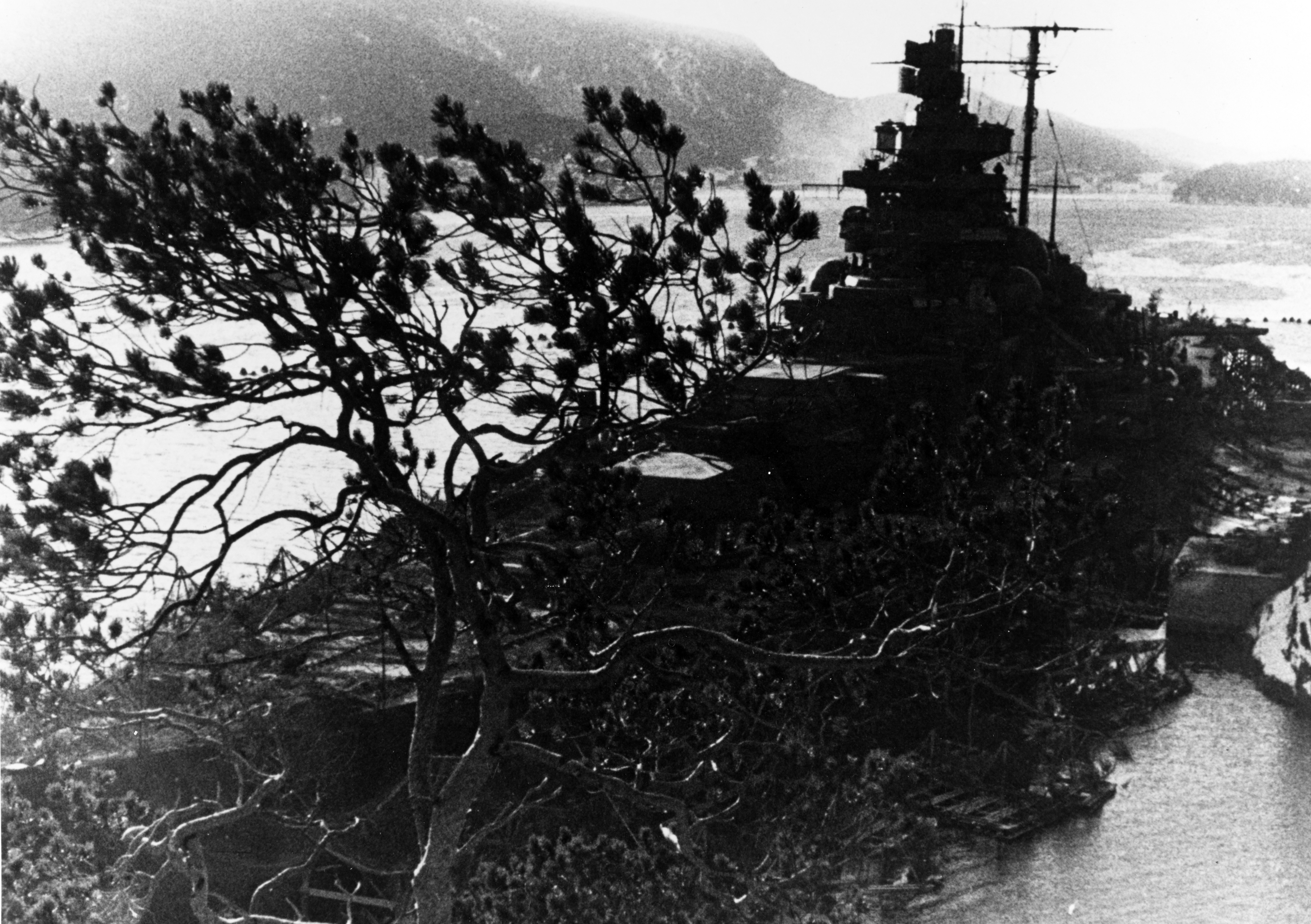 (German Battleship, 1941-1944) Camouflaged at her moorings in the Flehke Fjord, Norway, during World War II. U.S. Naval History and Heritage Command Photograph.